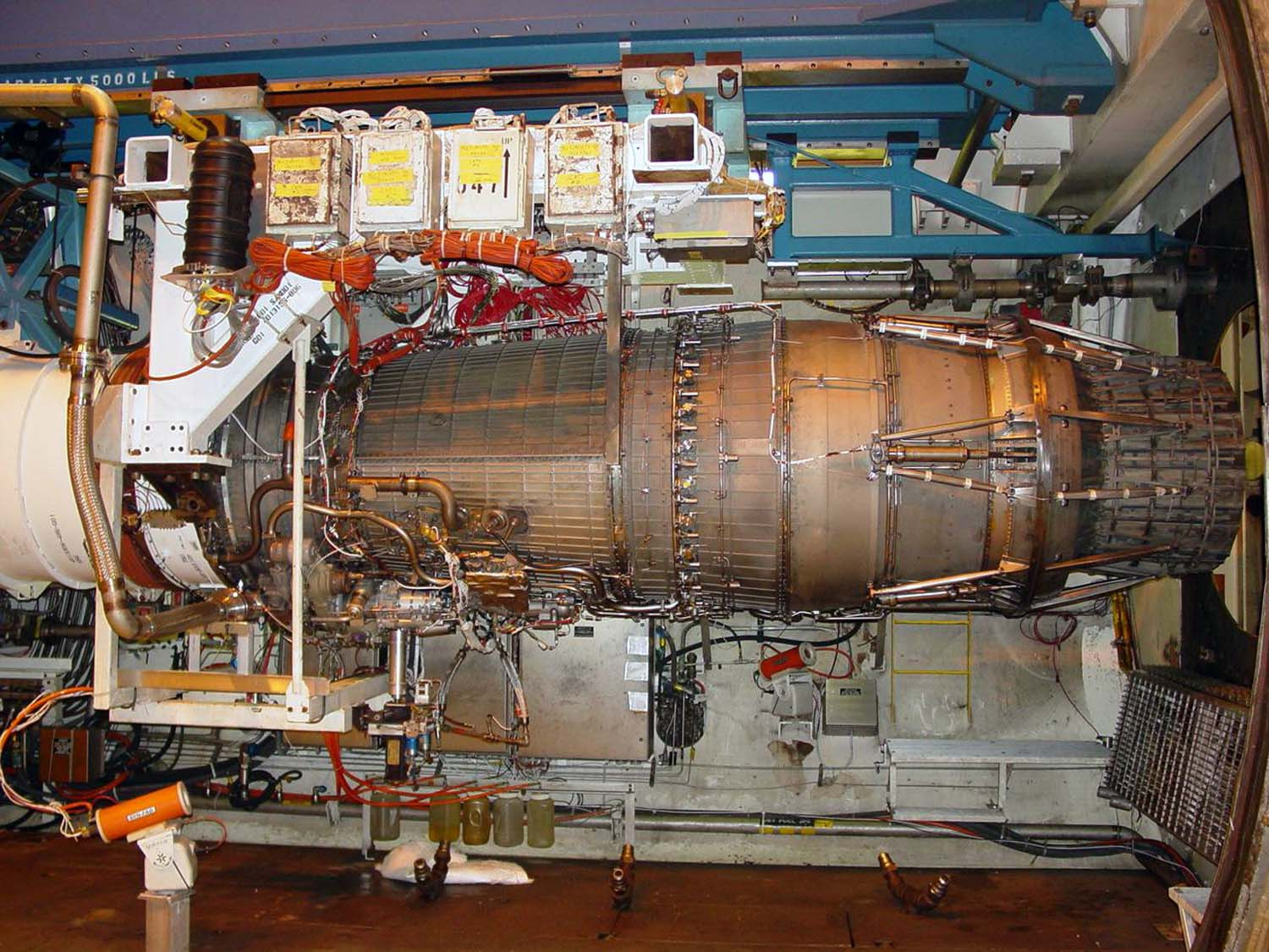 A General Electric F101 engine serves as the power plant for the B-1B Lancer. The engine has undergone a variety of altitude tests in Arnold Engineering Development Center's aero-propulsion J-1 test cell.